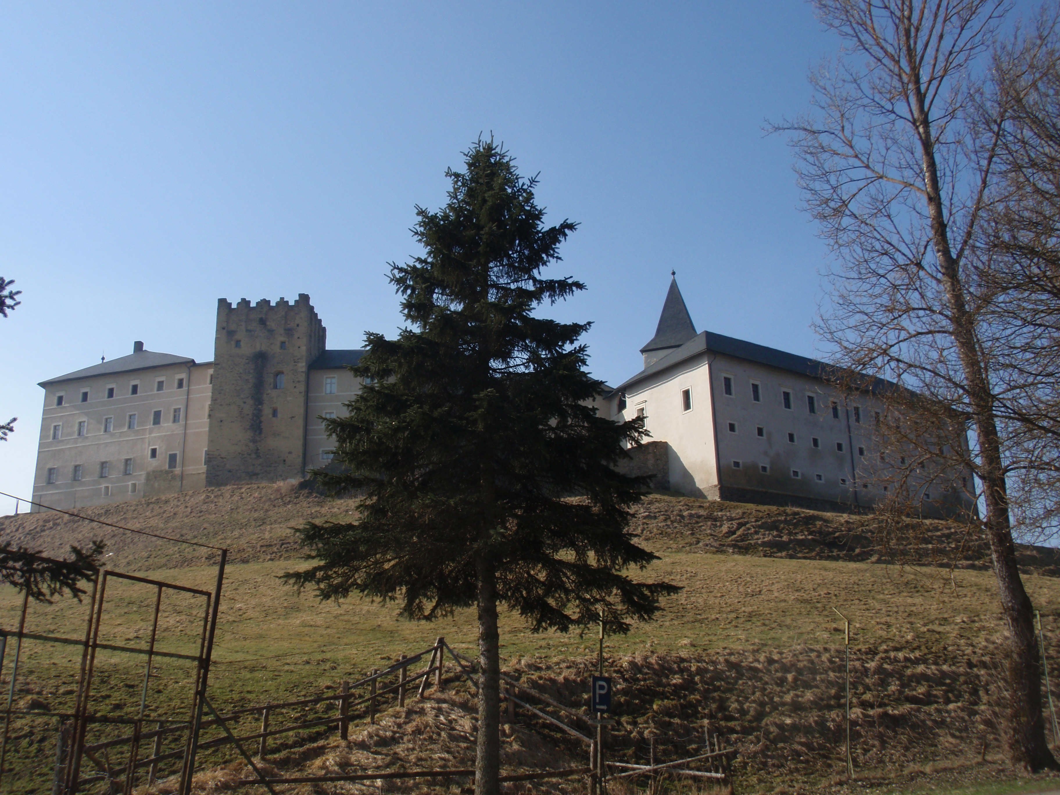 Castle in Strassburg in Carynthia, Austria